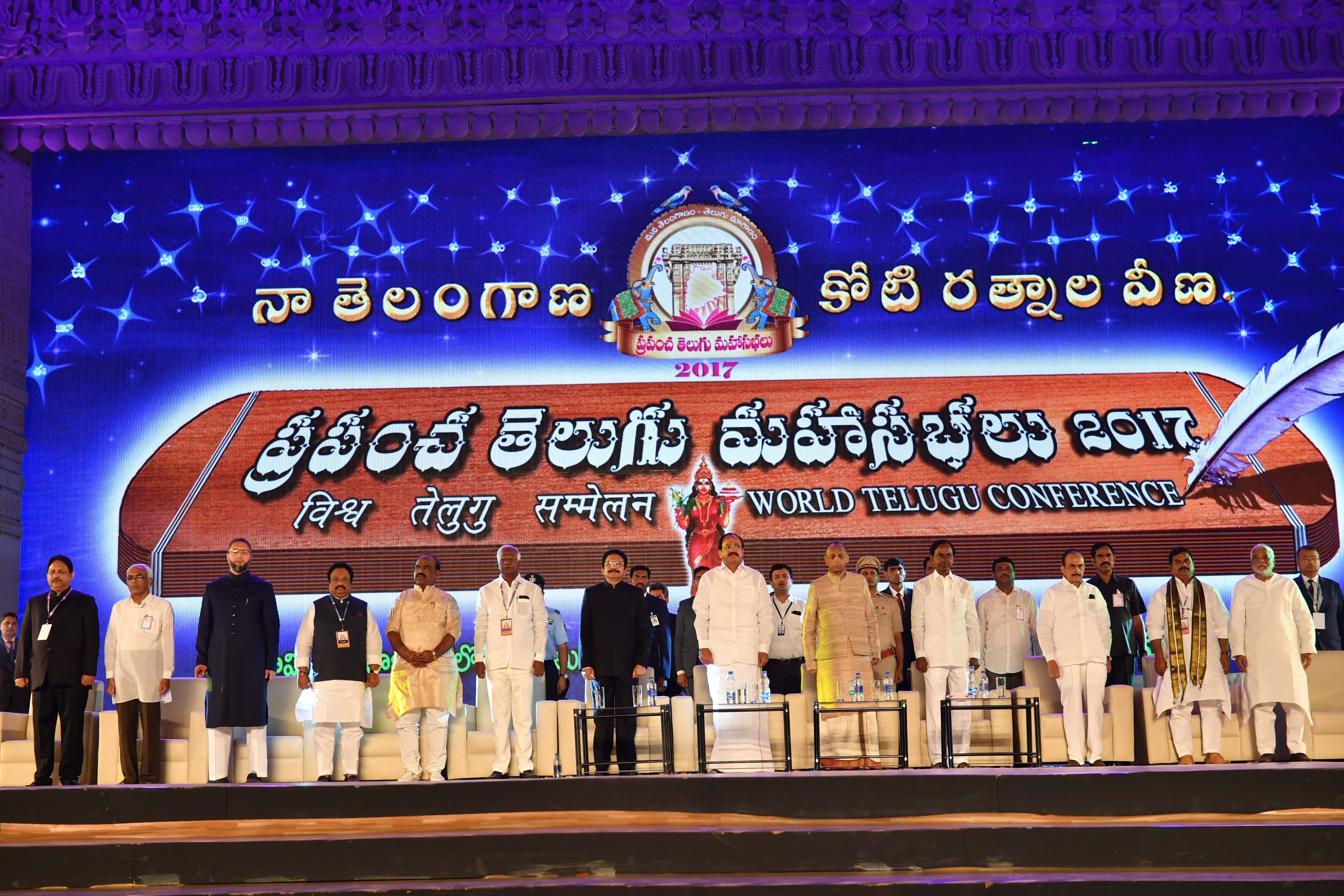 World Telugu Conference 2017 Opening Ceremony